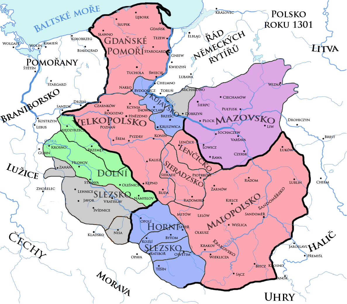 Political situation in Poland around 1291. In Czech language.